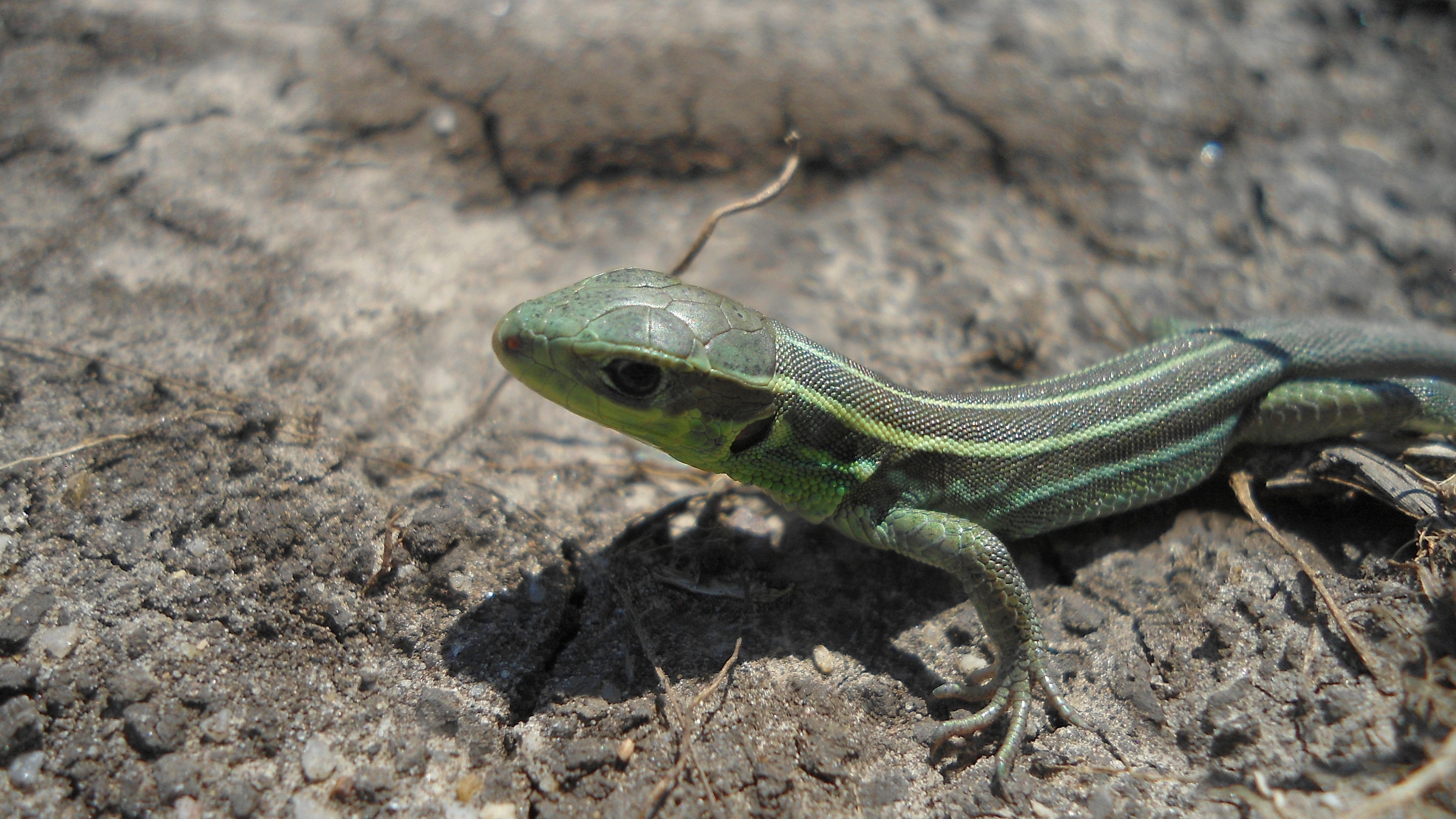 Balkan green lizard (Lacerta trilineata) - young specimen from Southeastern Bulgaria.